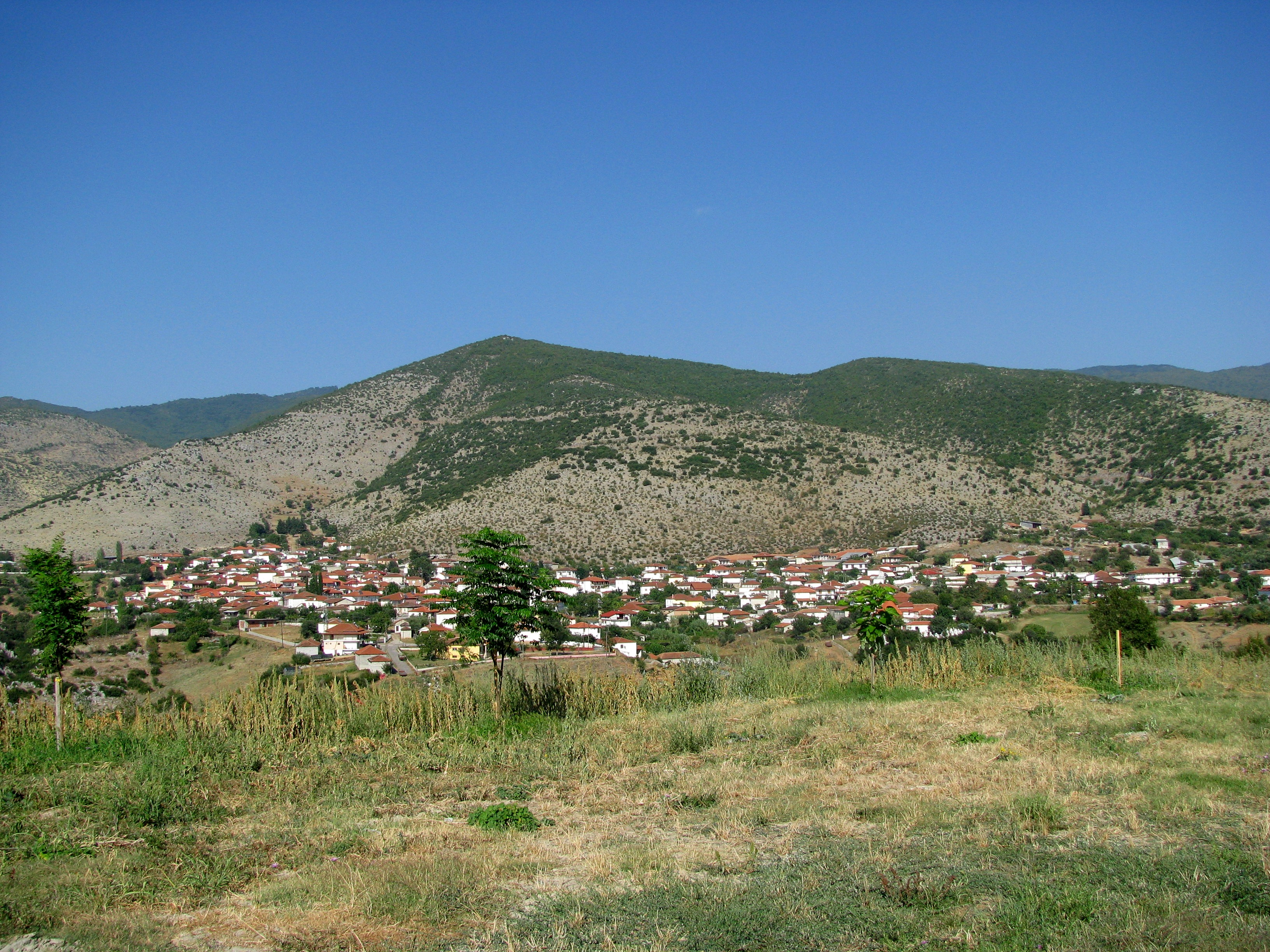 Village of Todortsi or Teodoraki, Pella prefecture, Greece